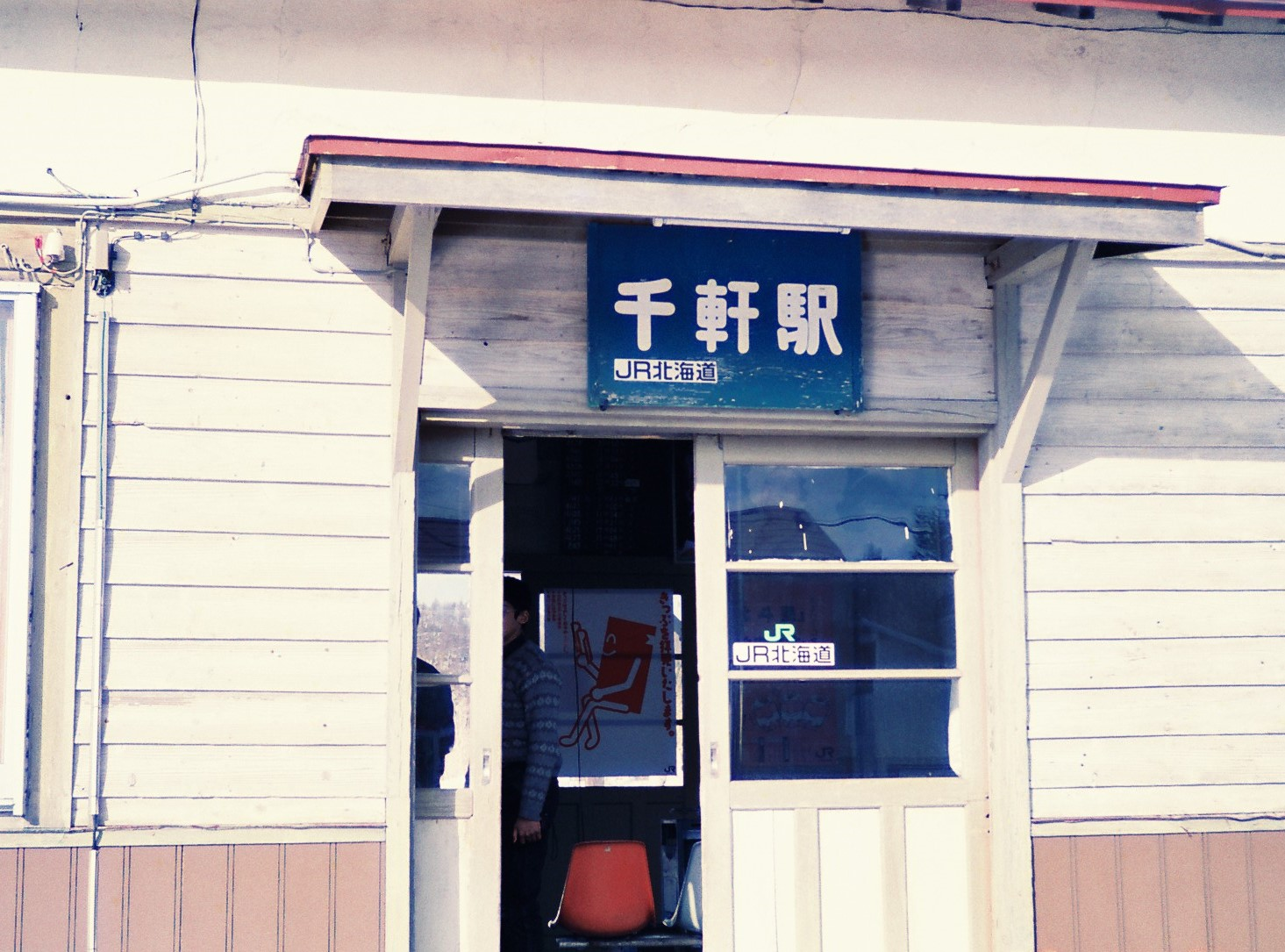 Sengen Station on the Matsumae Line in Hokkaido